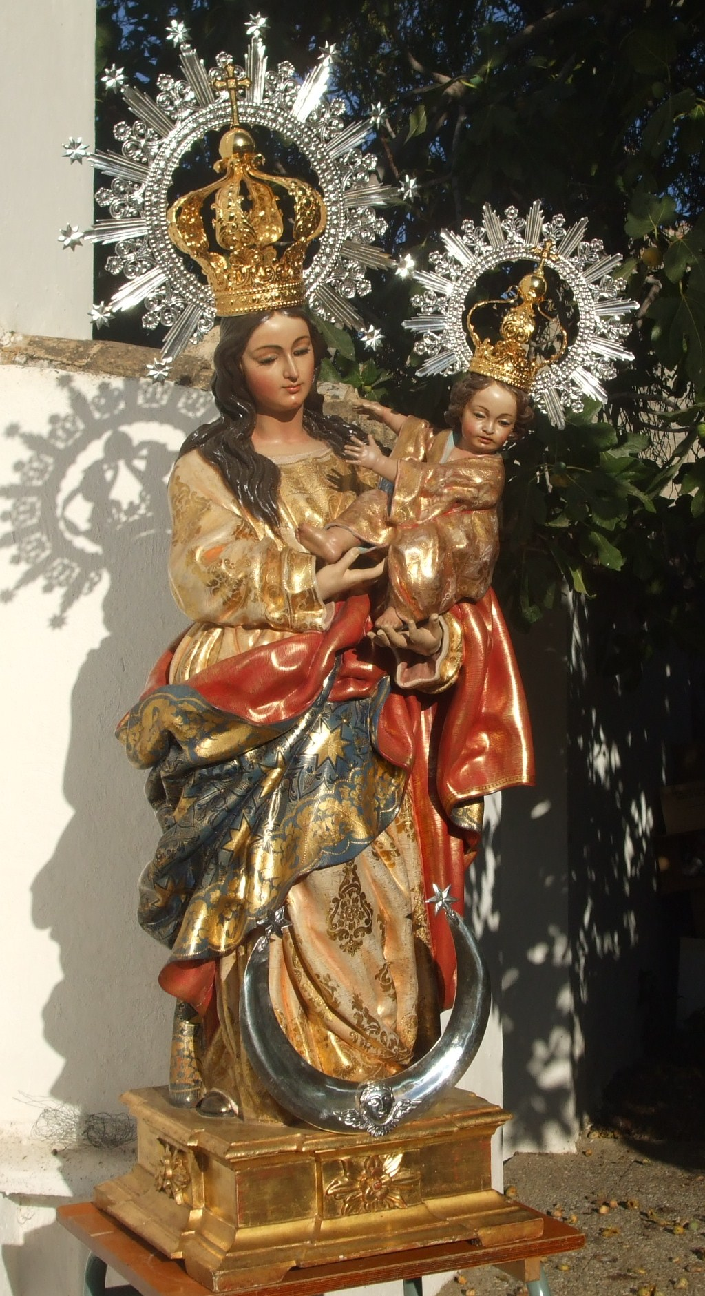 Our Lady of the snow